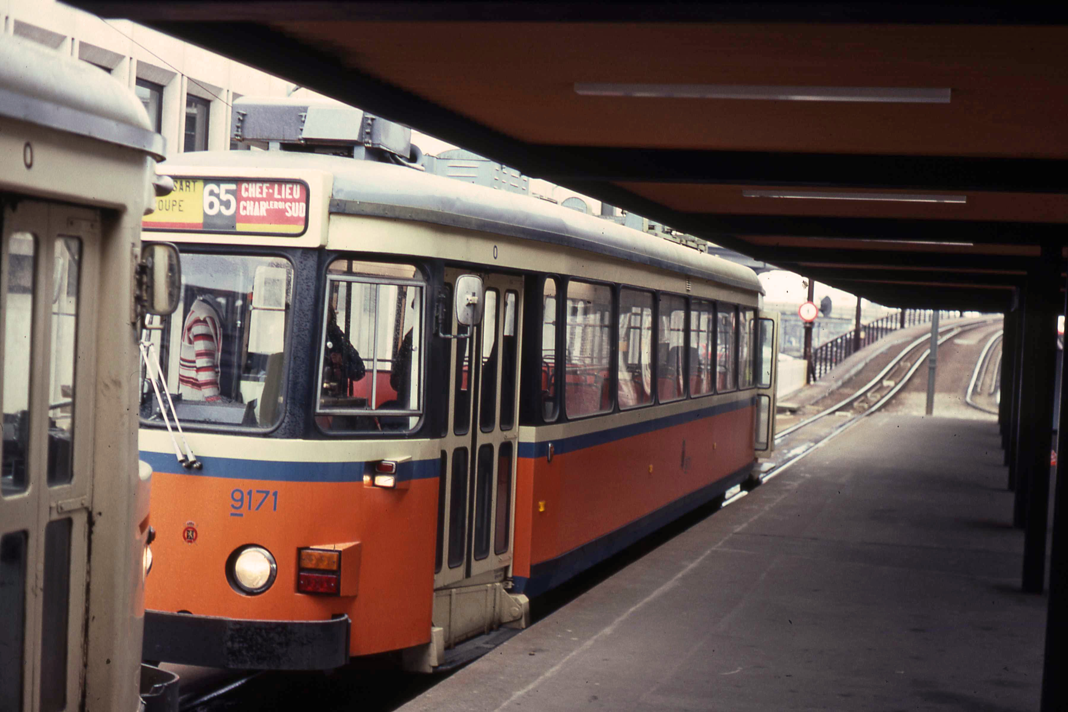 A red rebuilt type "S" tram stands behind an unmodified "S" tram in Charleroi-Sud. Line 65 is a ringline in Charleroi